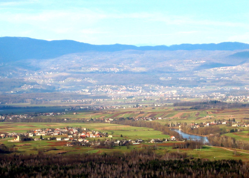 Kolpa river, Slovenia, Bela krajina